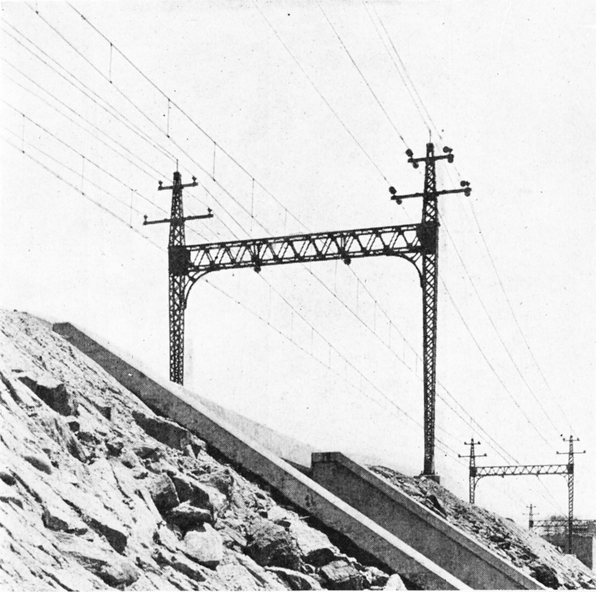 So called Single Catenary of the New York, Westchester and Boston Railway. It was only used on the New Rochelle branch.